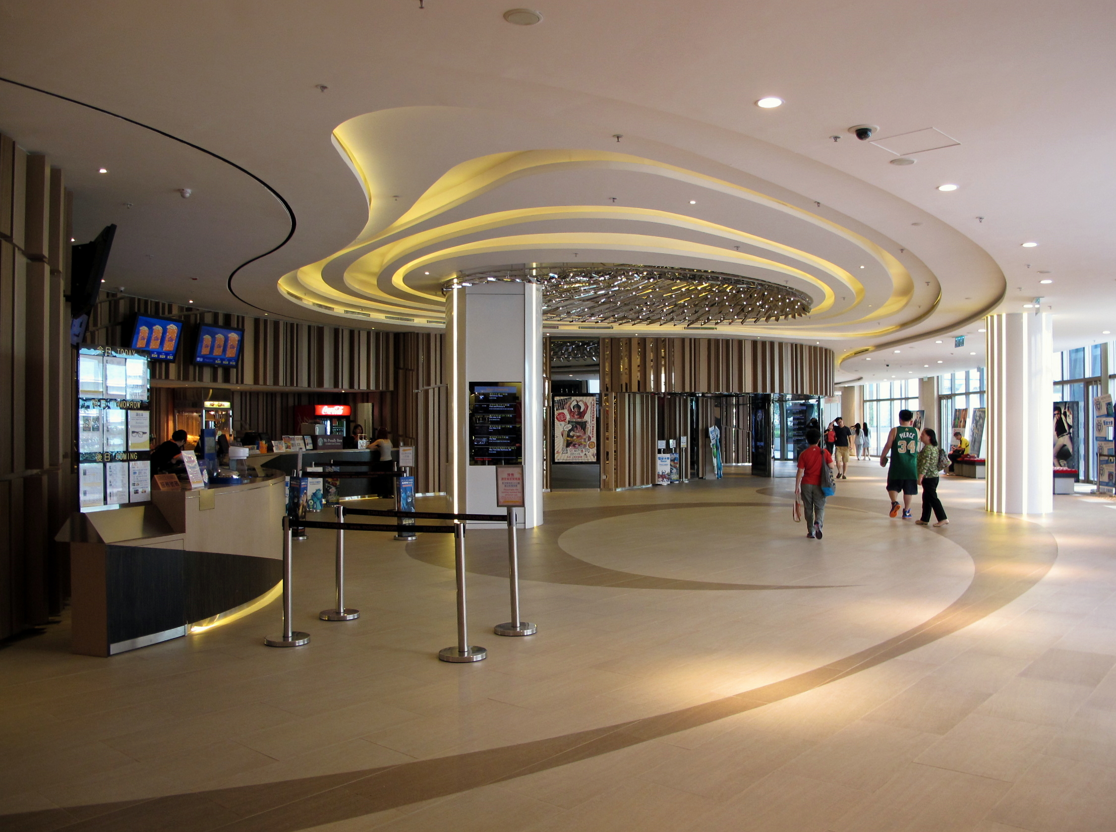 Star Cinema Ticket Office in PopCorn, TKO